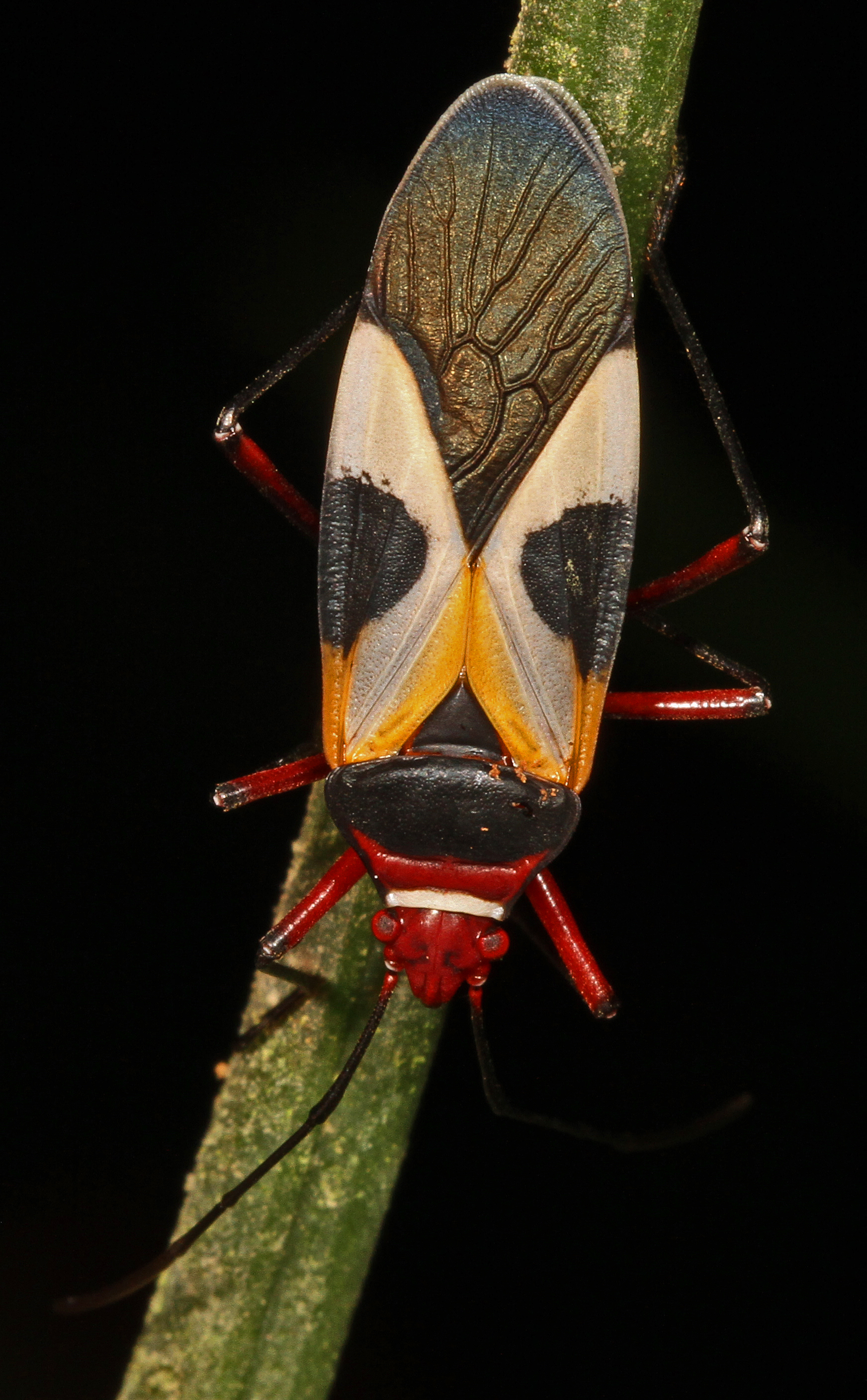 Pale Red Bug - Dysdercus concinnus, Caves Branch Jungle Lodge, Belmopan, Belize.